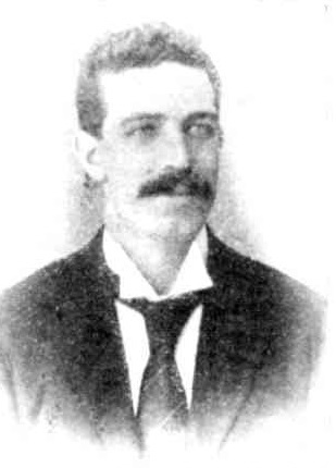 Photograph of Harry Wright featured in Punch Newspaper in 1901